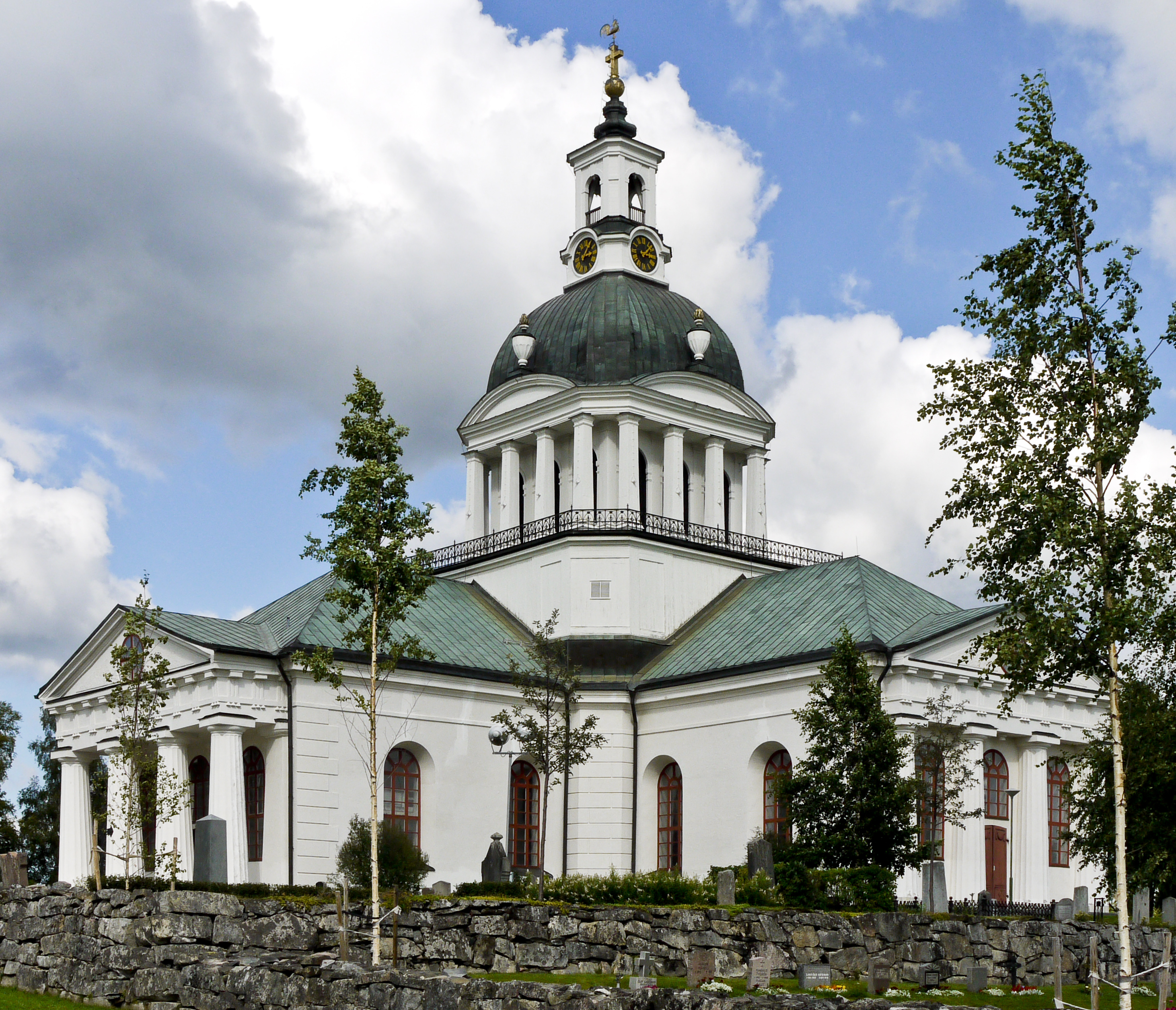 Skellefteå landsförsamlings kyrka, Diocese of Luleå, Skellefteå, Sweden.